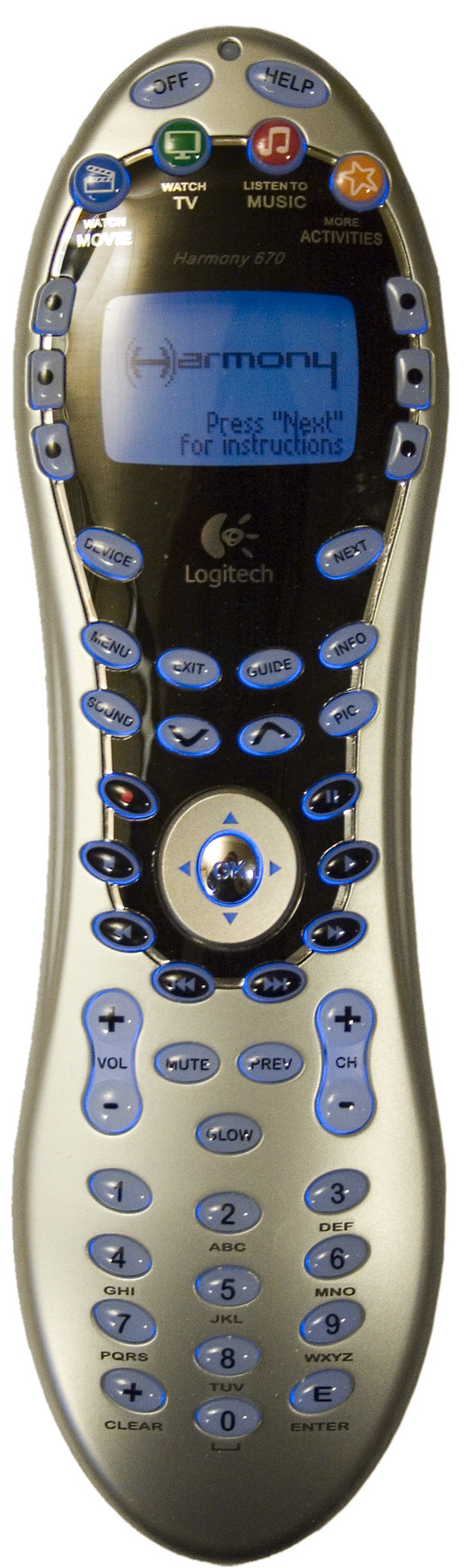 Logitech Harmony 670 Universal Remote Control. This unit is an activity based remote, programmable via a desktop computer and USB connection.